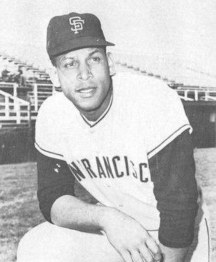 Professional baseball player Orlando Cepeda